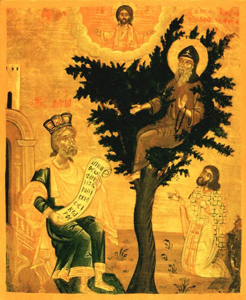 St. David of Thessalonica (ortodox icon)